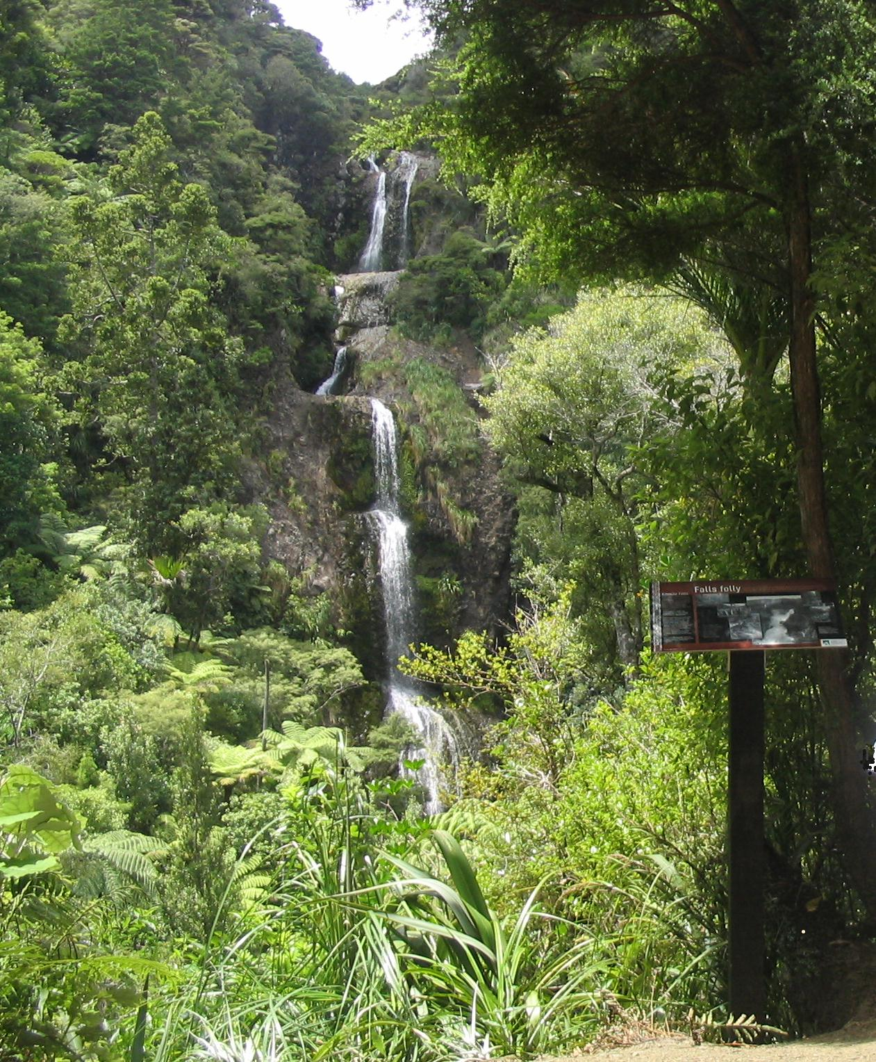 Kitekite falls from the lookout; January 2008